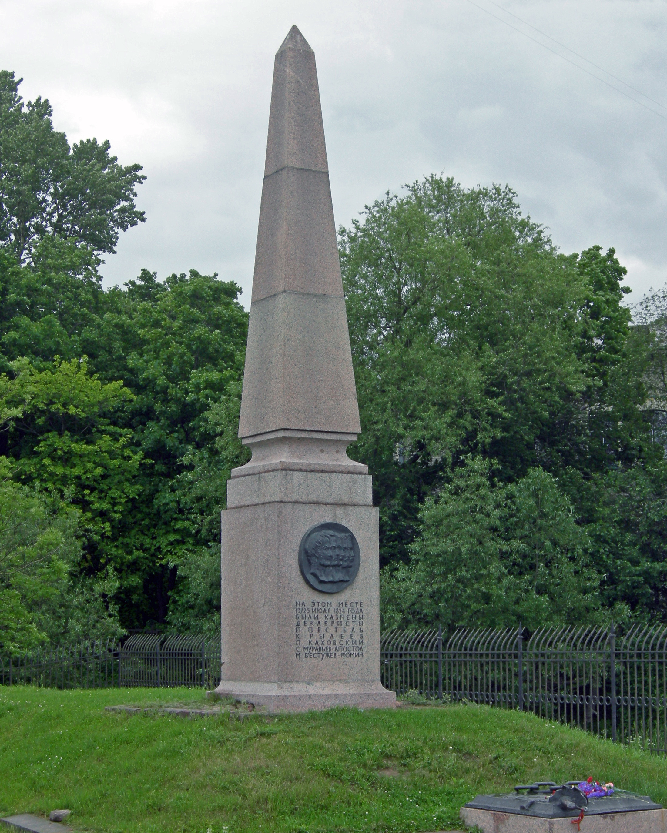 Memorial to the Decembrists at the execution place of Pavel Pestel, Kondraty Ryleyev, Peter Kakhovsky, Sergey Muravyov-Apostol, and Mikhail Bestuzhev-Ryumin; Peter and Paul Fortress, St. Petersburg